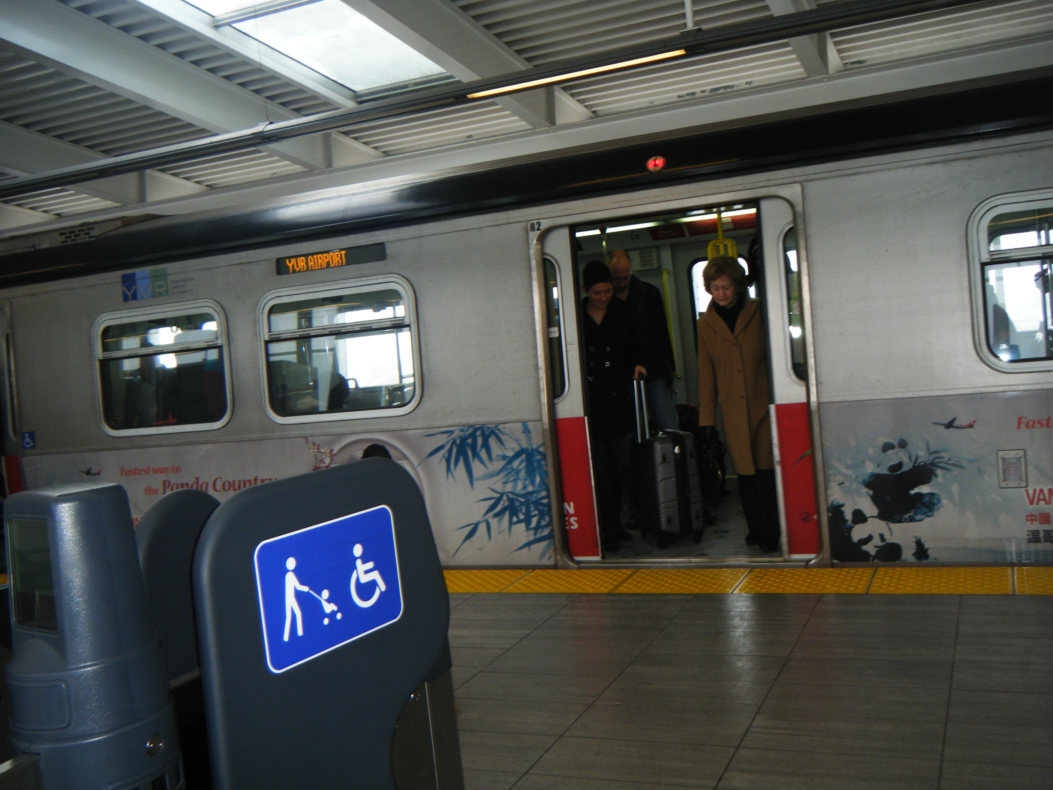 Canada Line at YVR